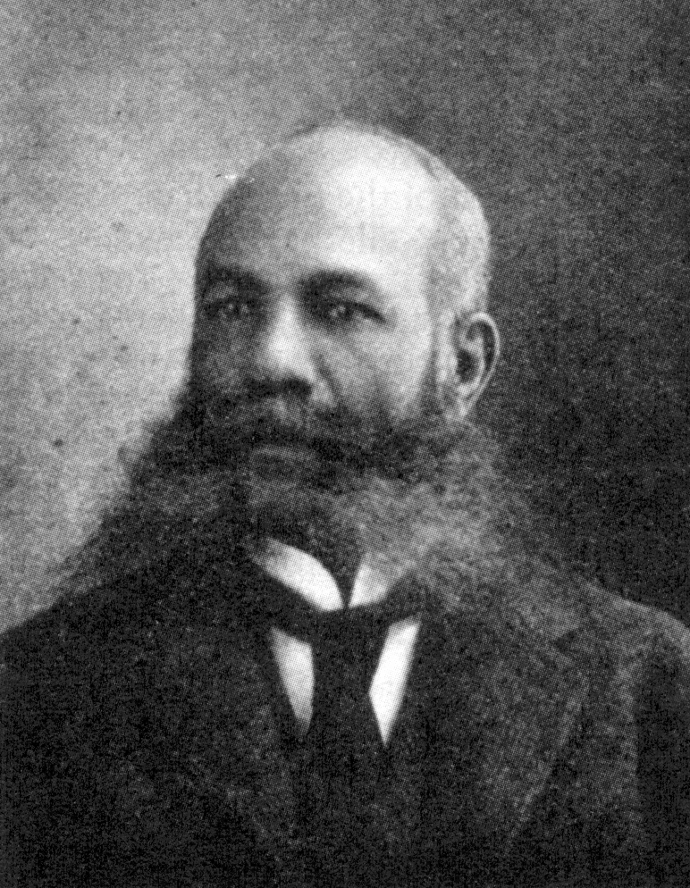 Alexander Miles of Duluth Minnesota about 1895